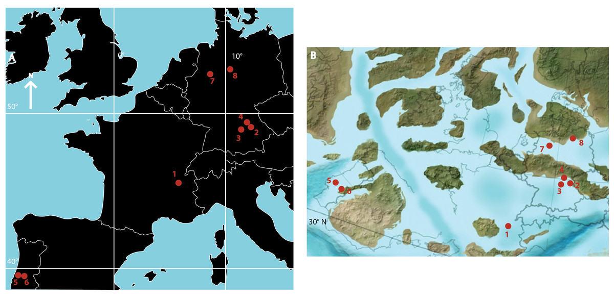 Figure 1: (A) Geographic distribution of Late Jurassic atoposaurid specimen localities. 1, Cerin; 2, Kelheim; 3, Painten; 4, Solnhofen; 5, Guimarota; 6, Andrès; 7, Langenberg; 8, Uppen. Note that those localities not mentioned in the text all include occurrences of indeterminate remains of Theriosuchus; (B) Approximate palaeogeographic distribution of Late Jurassic atoposaurids. Map reconstruction from Ron Blakey, Colorado Plateau Geosystems, Arizona, USA ([1]).